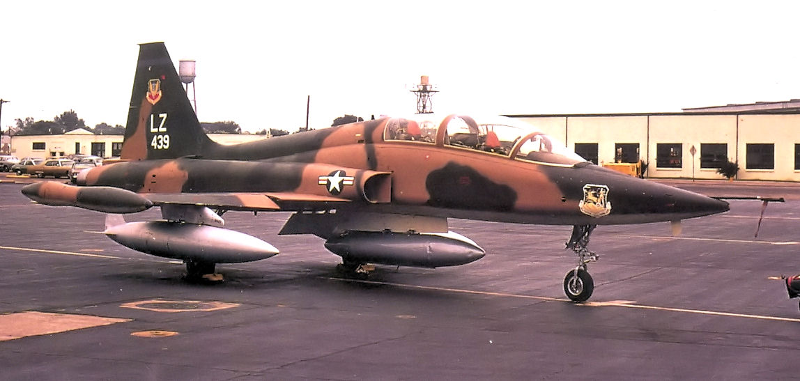 425th Tactical Fighter Training Squadron Northrop F-5B-50-NO Freedom Fighter 72-0439 Crashed near Tucson, AZ Jul 27, 1982 following collision with F-5 73-0899. All three occupants from both aircraft ejected but one was killed.